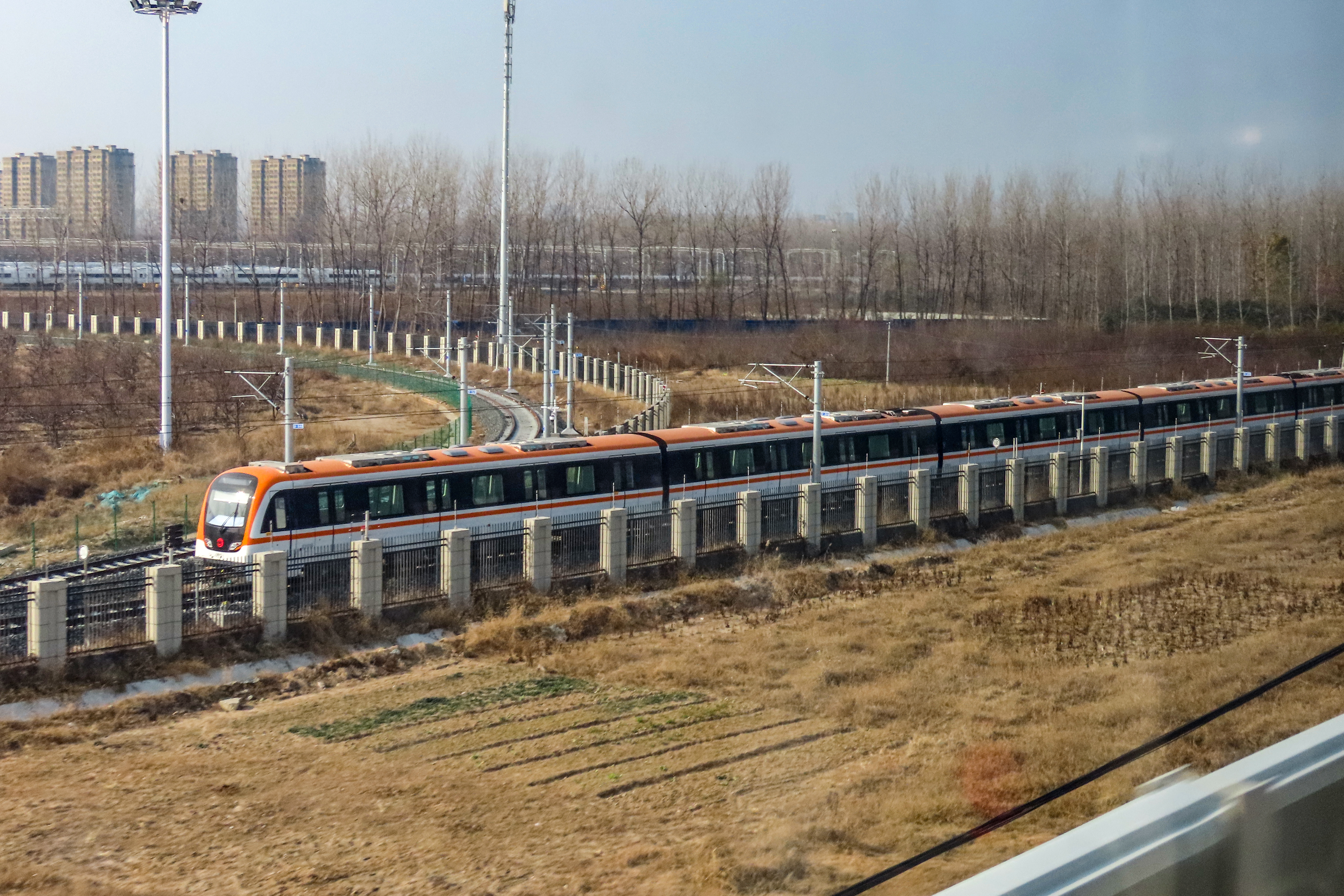 Taken from G124 before entering Xuzhoudong Station.